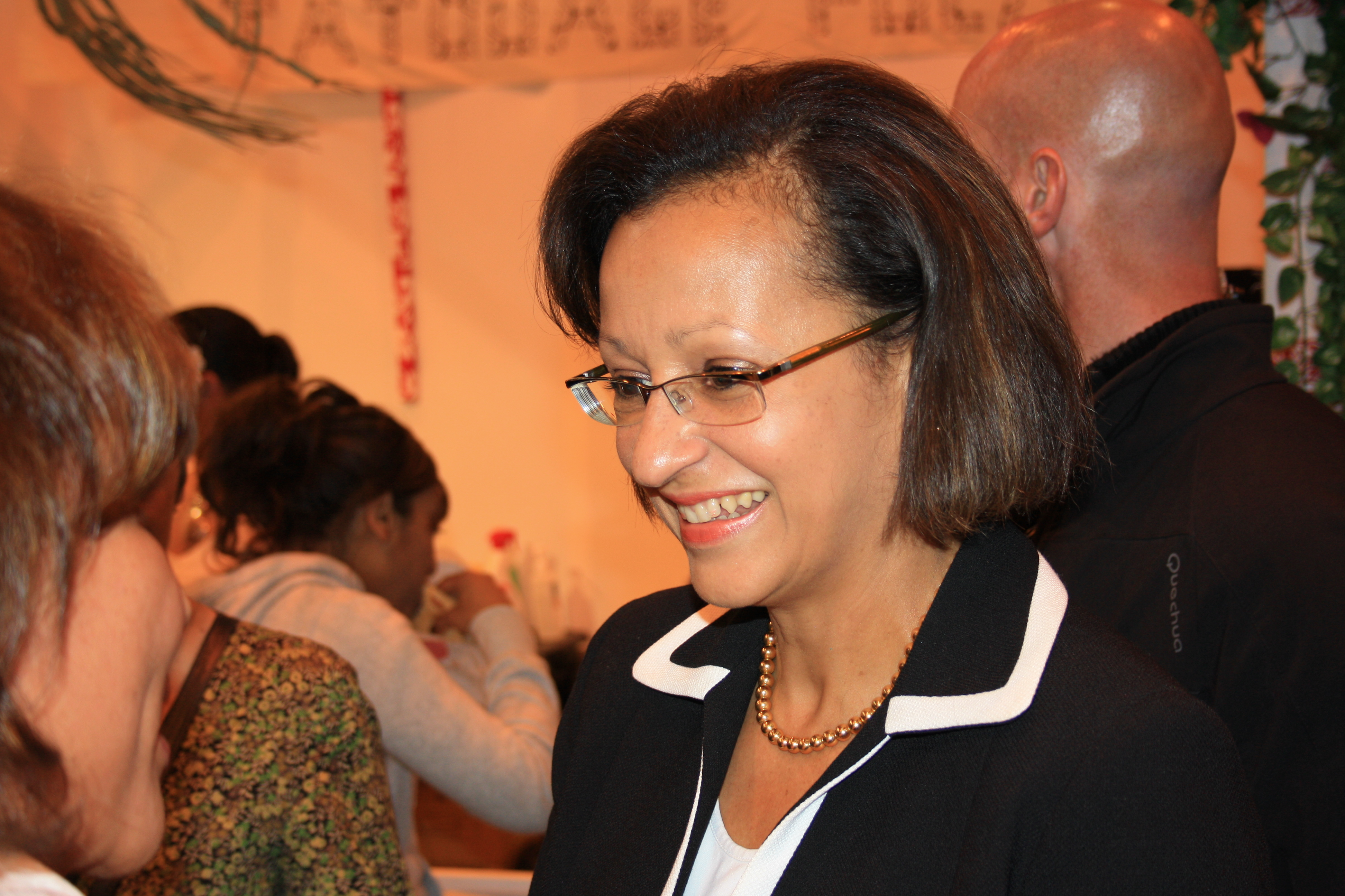 Marie-Luce Penchard in Foire de Paris 2011 fair in Paris, France